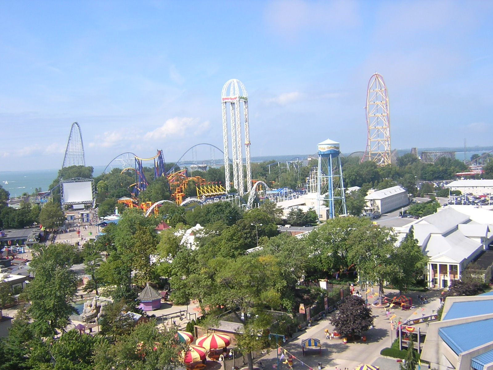 A scene from Cedar Point, an amusement park located in Sandusky, Ohio on Lake Erie. Cedar Point is owned and operated by Cedar Fair, L.P.. This scene is of the back half of the park taken from the giant ferris wheel.